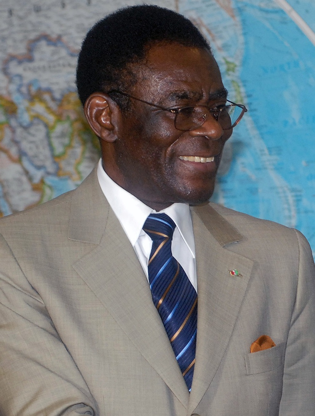 Teodoro Obiang Nguema Mbasogo during a meeting with Lula da Silva, President of Brasil